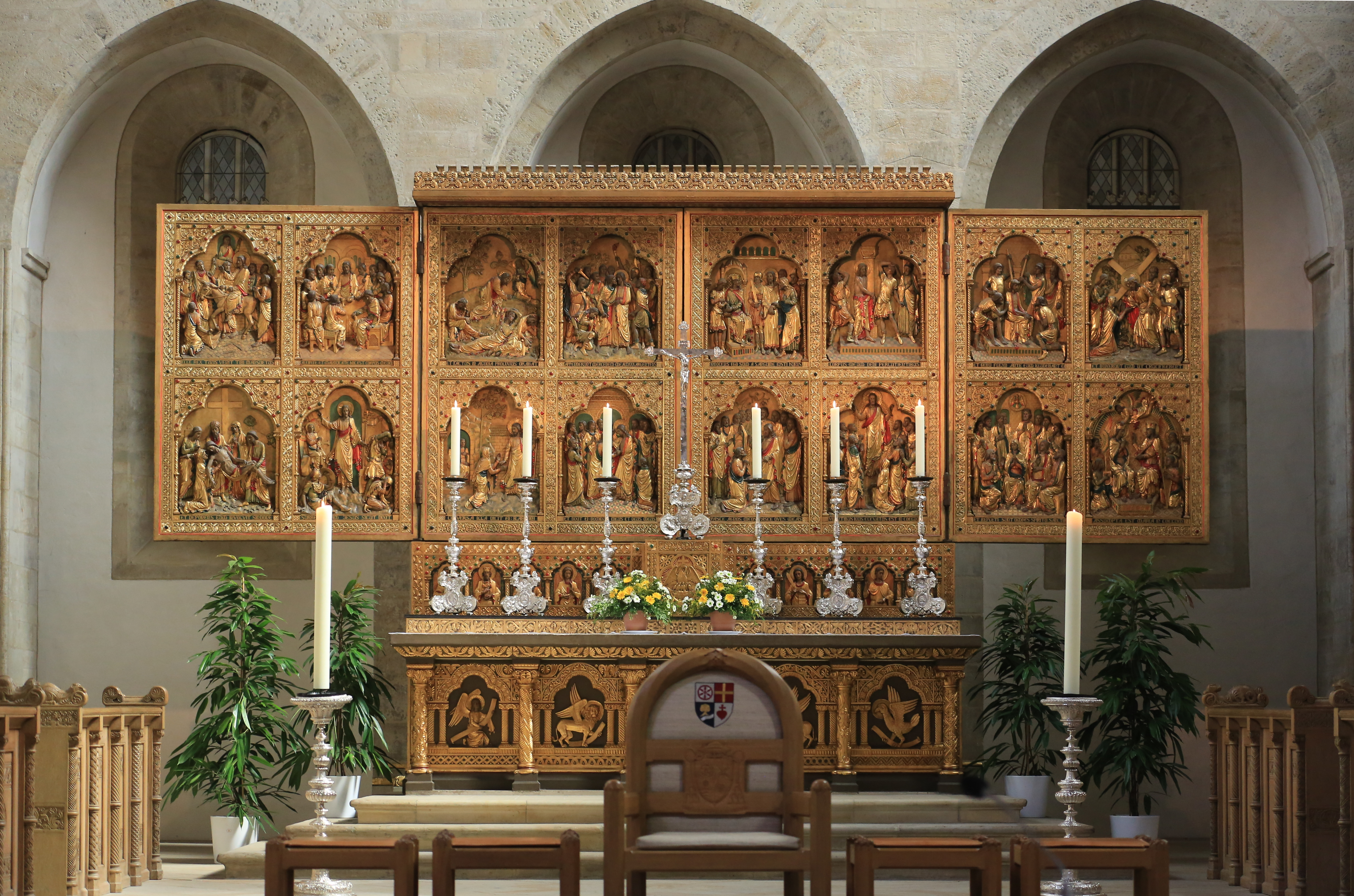 The altar in Dom St. Peter in Osnabrück, Germany